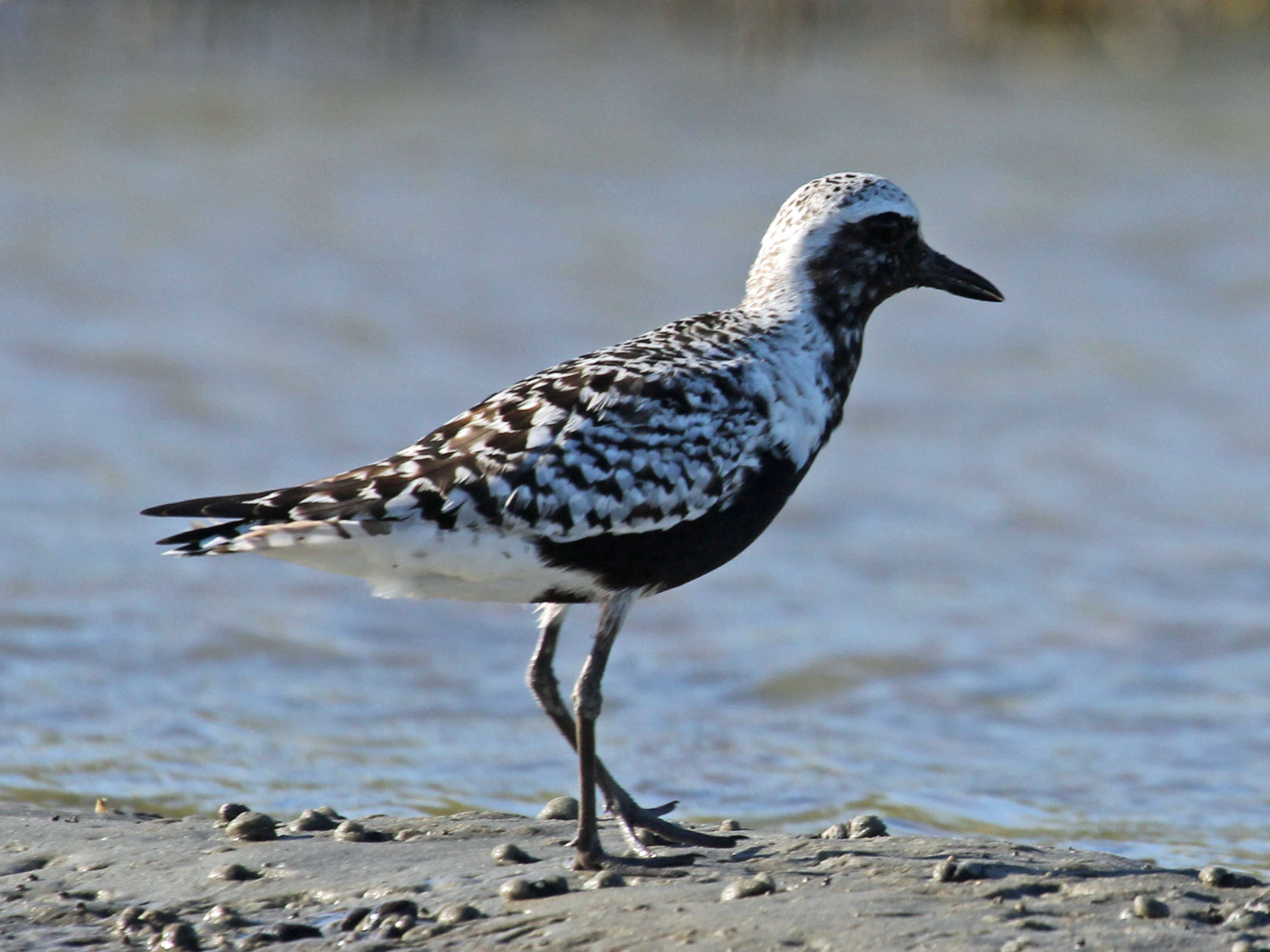 Black-bellied Plover ( Pluvialis squatarola) - Sunset Beach, North Carolina